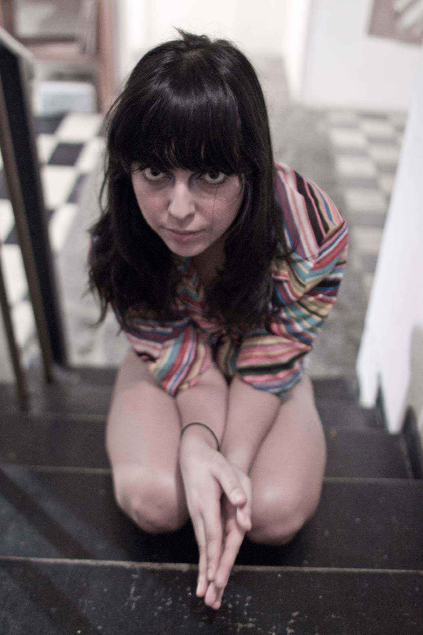 Selma Oxor at home in Mexico City, 2012.